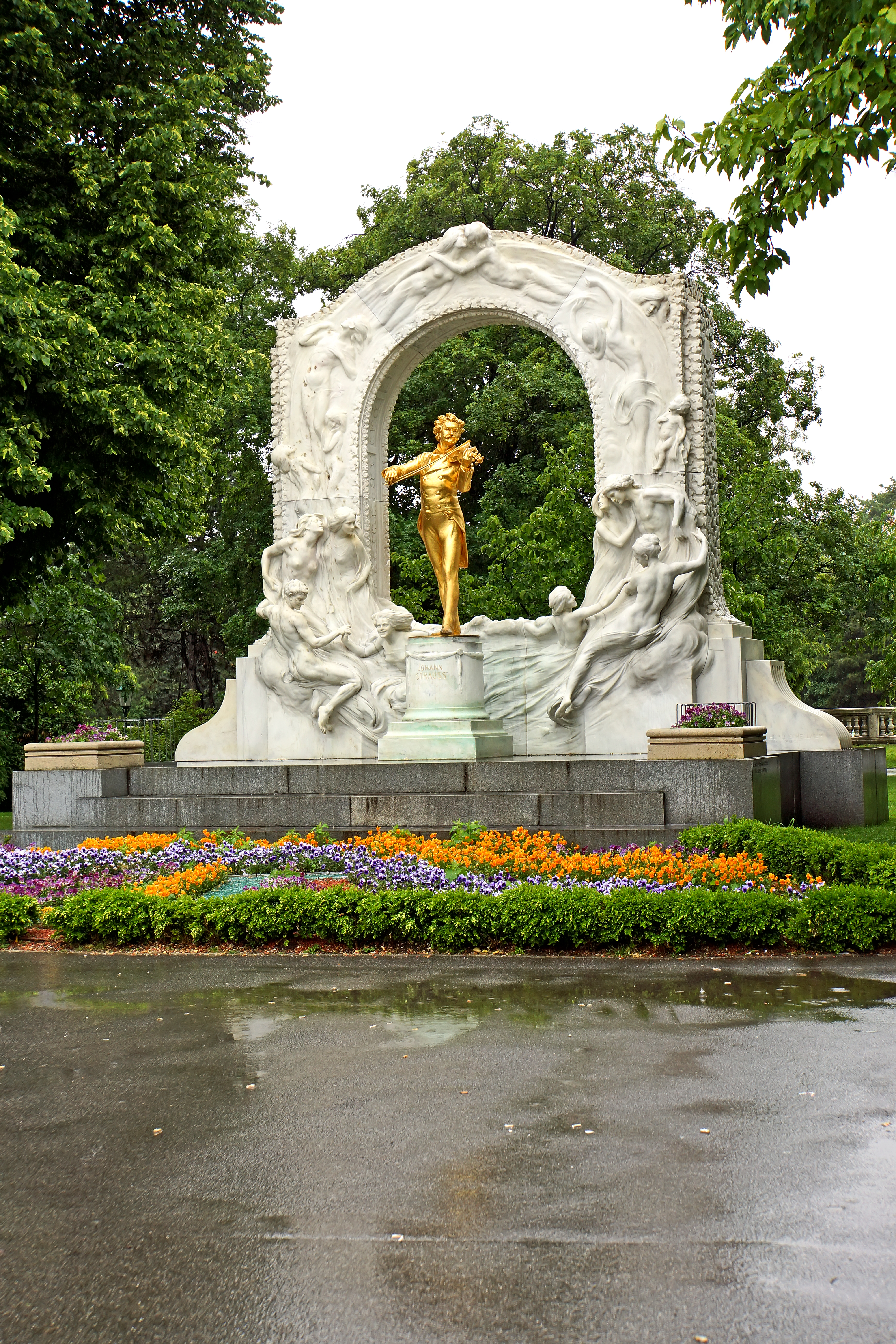 This was the main reason for me walking through Stadtpark Park, to get pictures of this monument located in the centre. As you can see it was raining still and I was surprised how many people were here to see this statue and taking pictures. Johann Strauss II became one of the most popular waltz composers of his time. Some of Johann Strauss's most famous works include - The Blue Danube, Kaiser-Walzer, Tales from the Vienna Woods, and the Tritsch-Tratsch-Polka. Among his operettas, Die Fledermaus and Der Zigeunerbaron are the best known. Strauss was diagnosed with pleural pneumonia in 1899, and died in Vienna, at the age of 73. He was buried in the Zentralfriedhof. Strauss's music is now regularly performed at the annual Neujahrskonzert of the Vienna Philharmonic Orchestra.